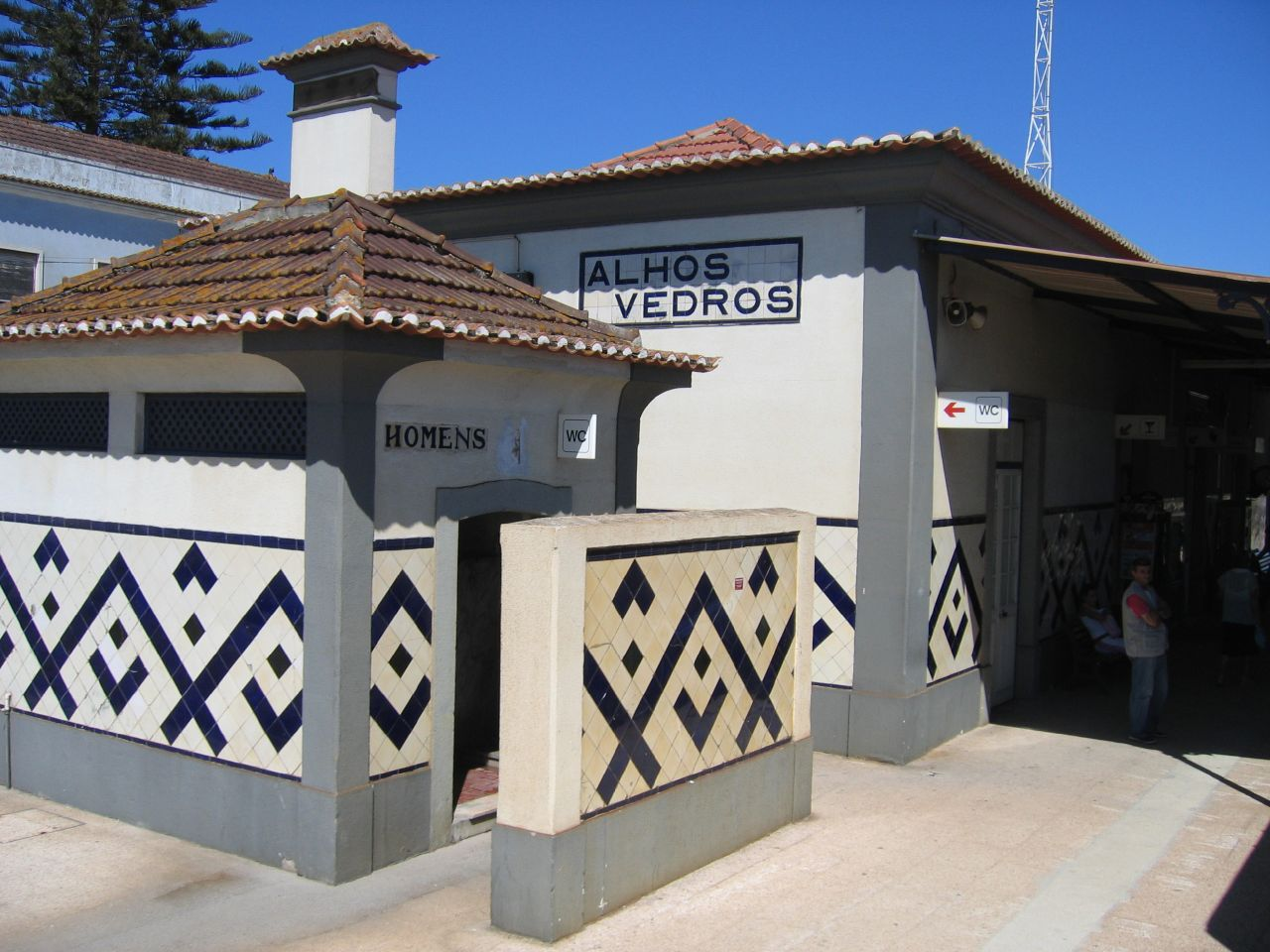 Railway station of Alhos Vedros